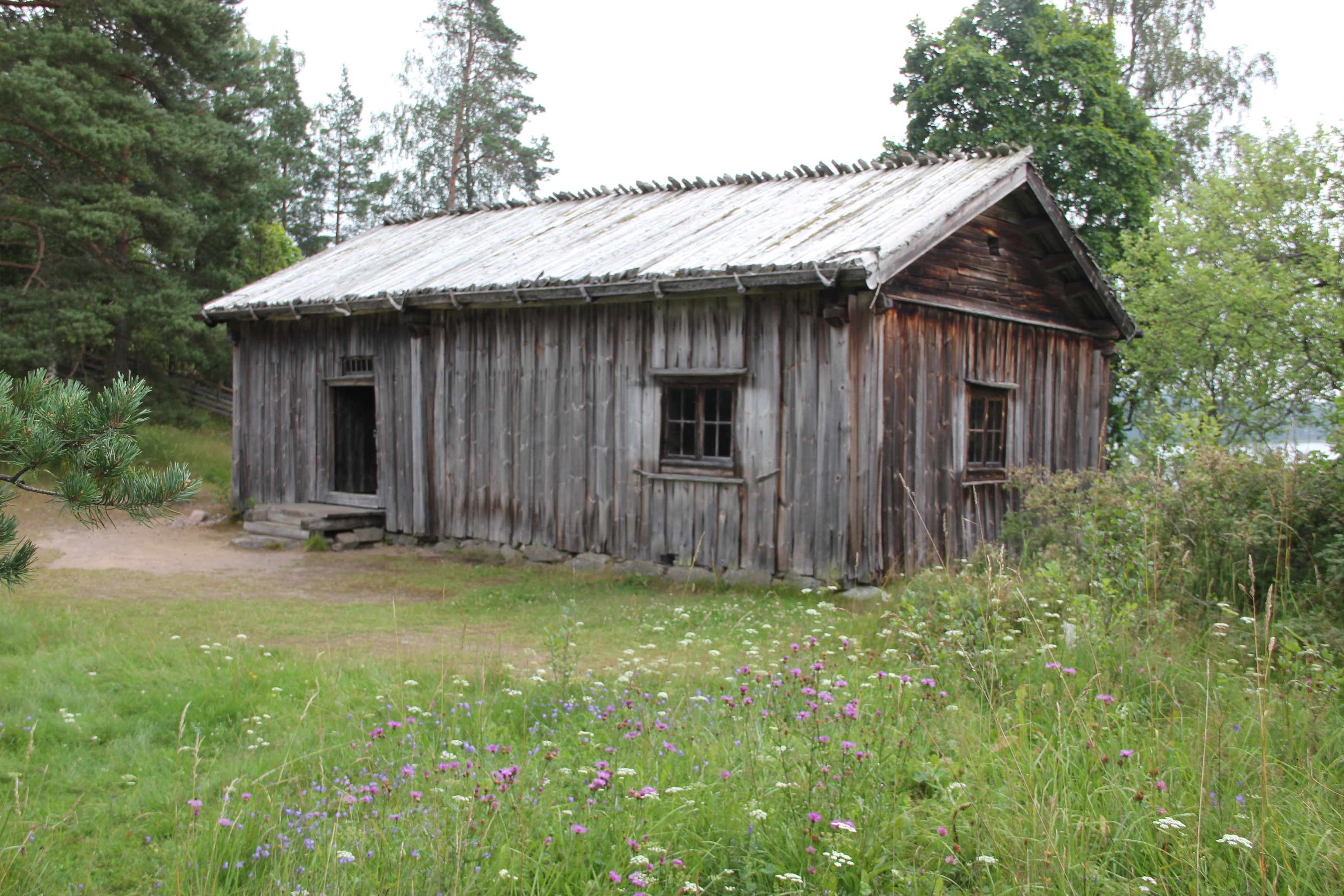 Paikkarin torppa is the house where Elias Lönnroth was born.